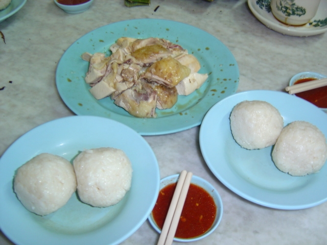 Hainanese Chicken Rice Ball AUTHOR: Lim Thiam Poh